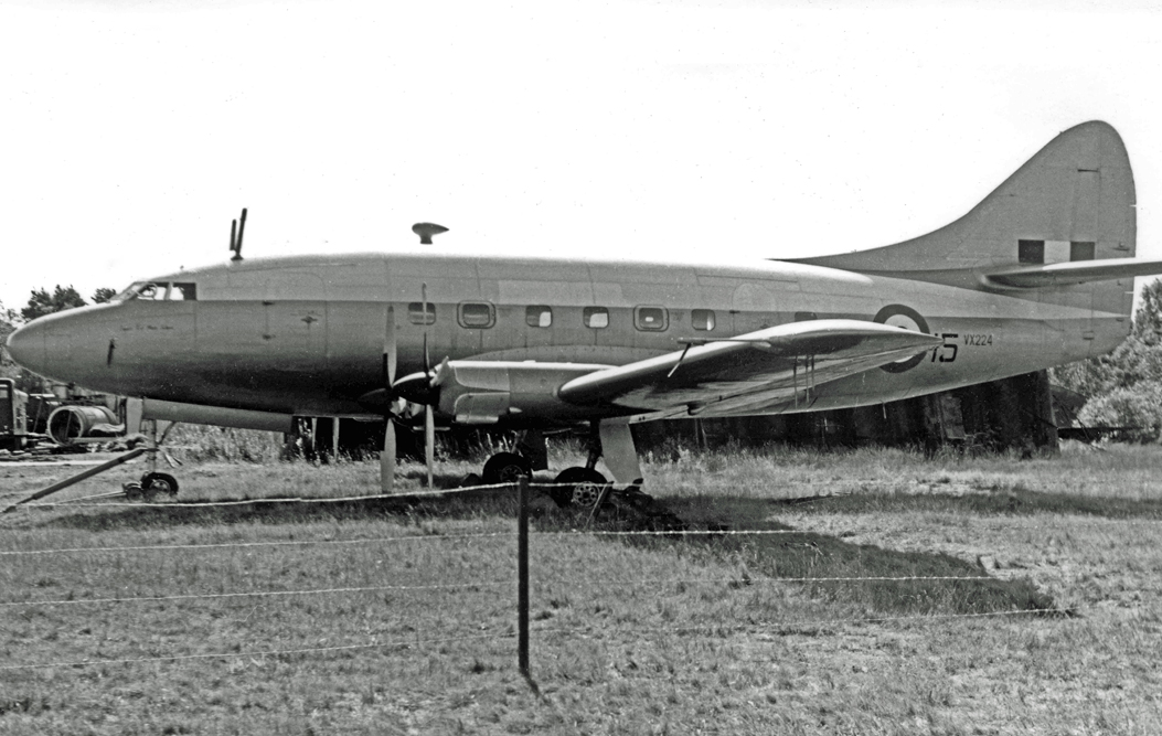 Armstrong Whitworth AS.55 Apollo VX224 Empire Test Pilot School Farnborough 1954